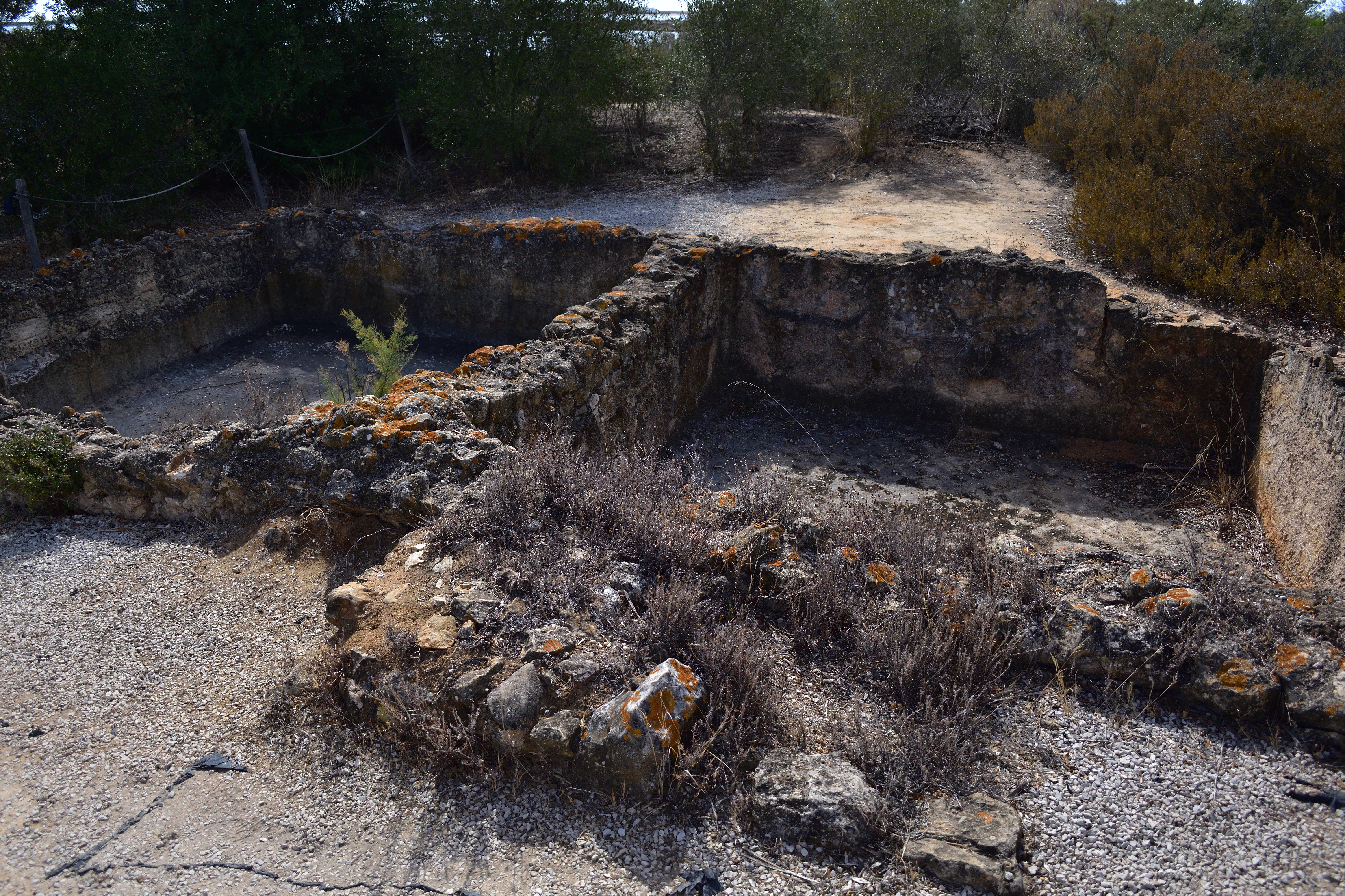 Roman Salting Tanks in Quinta de Marim, Olhão, Algarve - Southern Portugal.